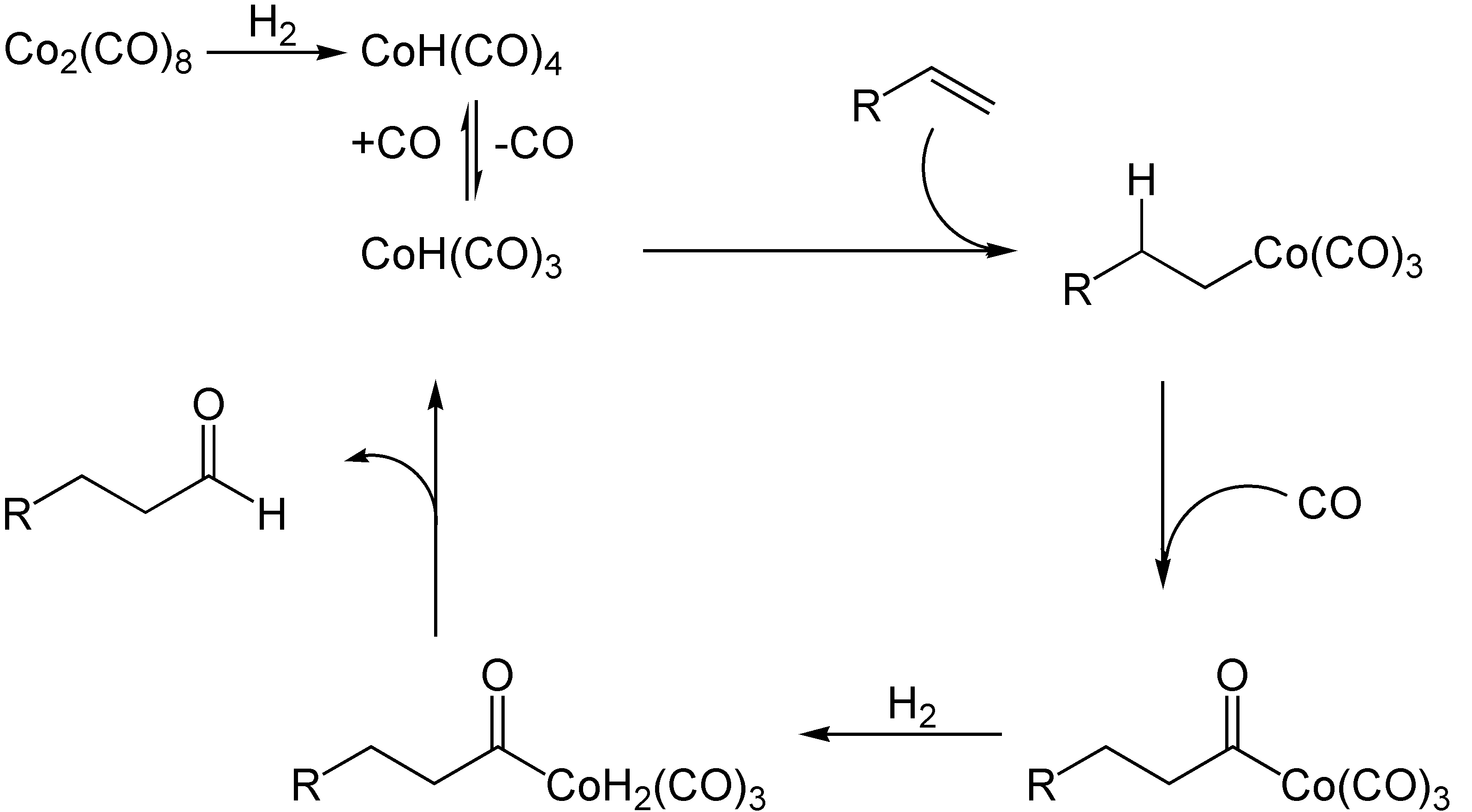 simplified mechanism of the hydroformylation